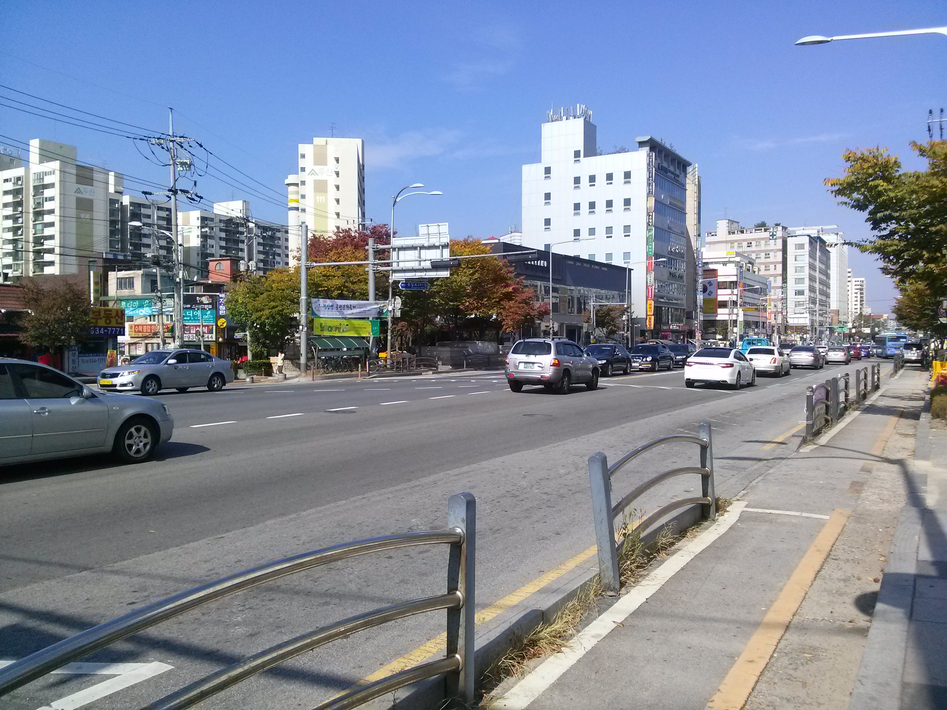 Dongil-ro(road), Seoul, Republic of Korea